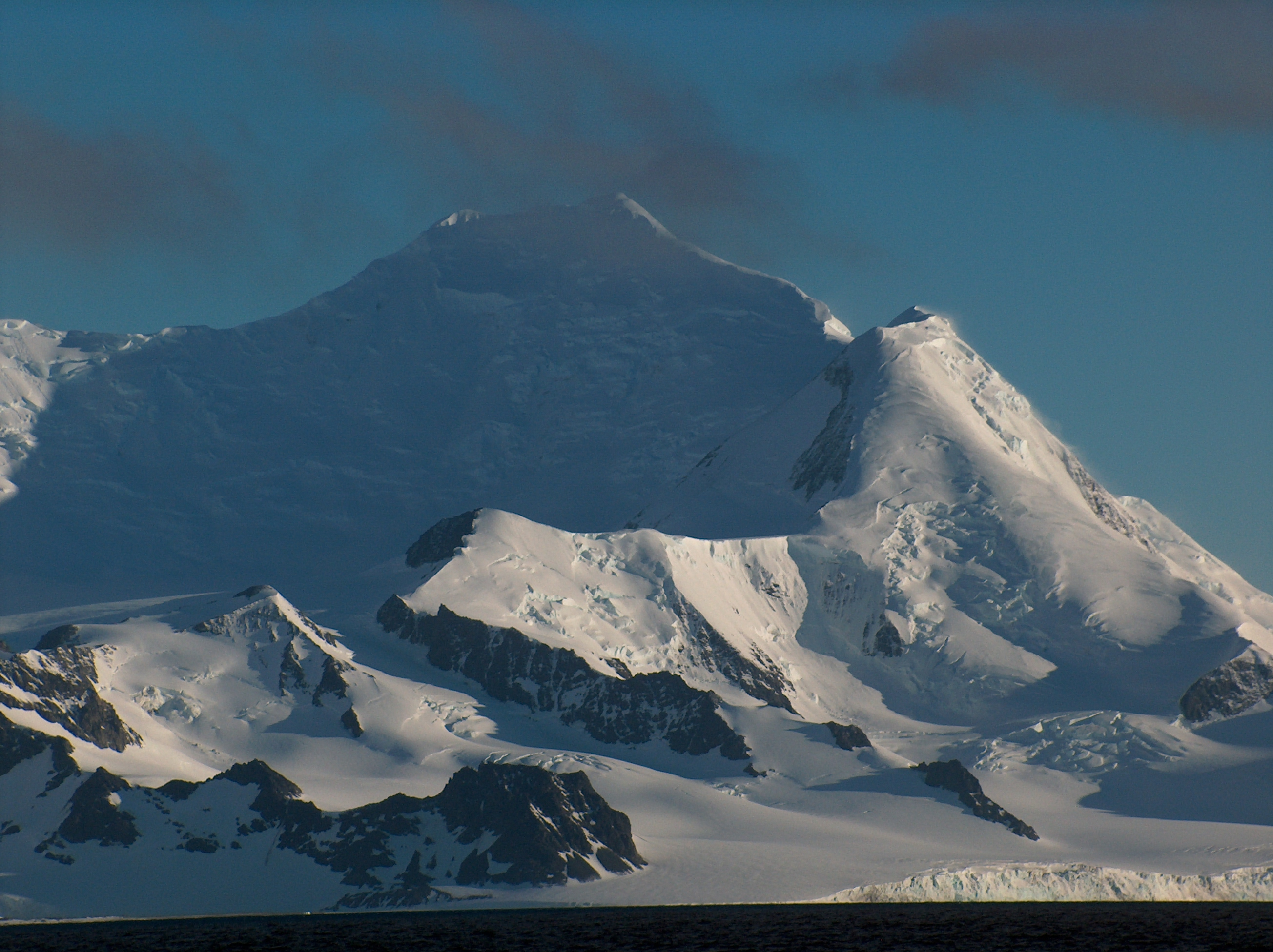 The twin summit of Sofia Peak and Great Needle Peak in Tangra Mountains on Livingston Island, Antarctica from ROU Vanguardia in Bransfield Strait, with Serdica Peak on the right, Silistra Knoll in the middle and Vazov Rock in the foreground